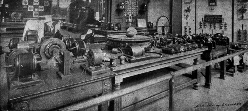 Westinghouse Electric Corporation exhibit of electric motors built on Nikola Tesla's patent, and demonstrations of how they function, at the 1893 World's Columbian Exposition (World's Fair) in Chicago, Illinois, USA. Also exhibited (front, center) are early Tesla Coils and parts from his high frequency alternator. Image is from Thomas Commerford Martin's 1894 book The Inventions, Researches and Writings of Nikola Tesla with items lettered so they could be explained in text.